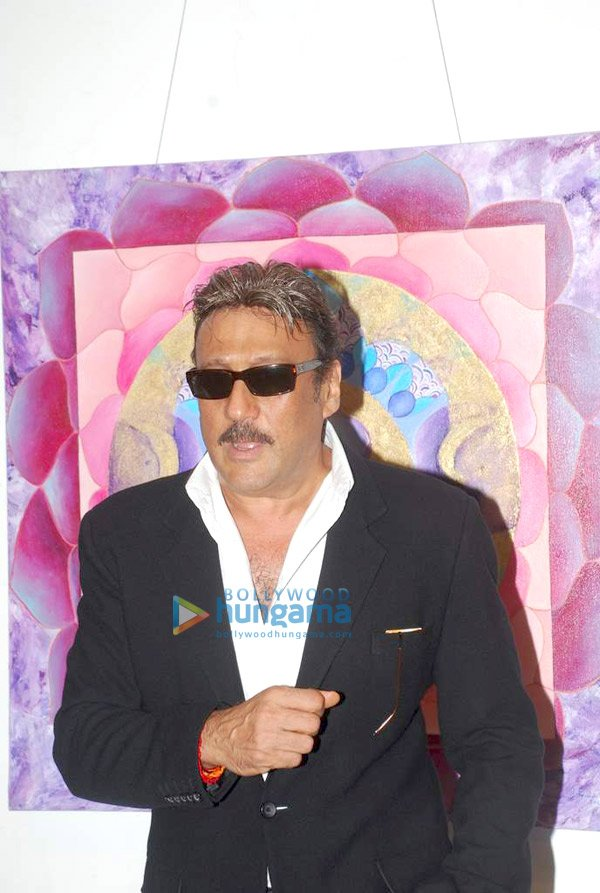 Jackie Shroff at Poonam Agarwal's art event